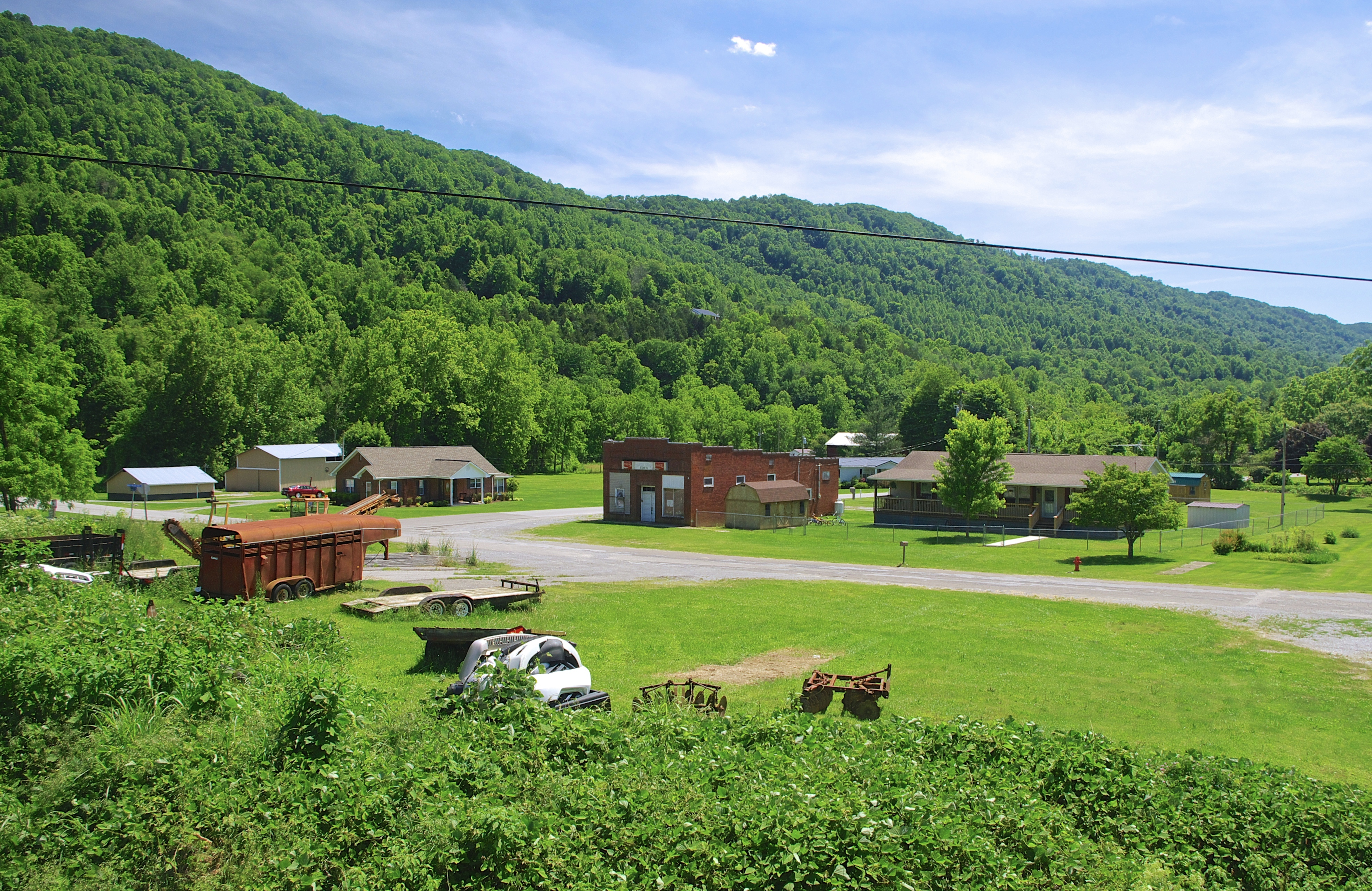 Stickleyville, Virginia, United States, viewed from U.S. Route 421.